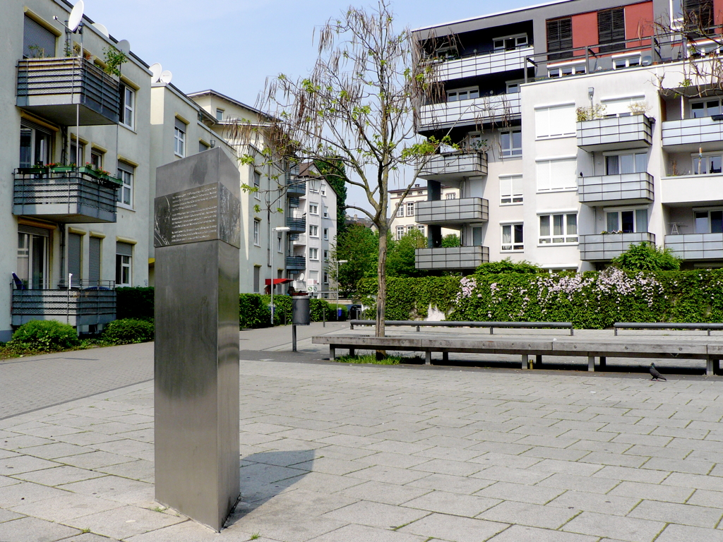 Paul Arnsberg Memorial at Paul Arnsberg Platz in the borough Ostend of Frankfurt am Main, Hesse, Germany.